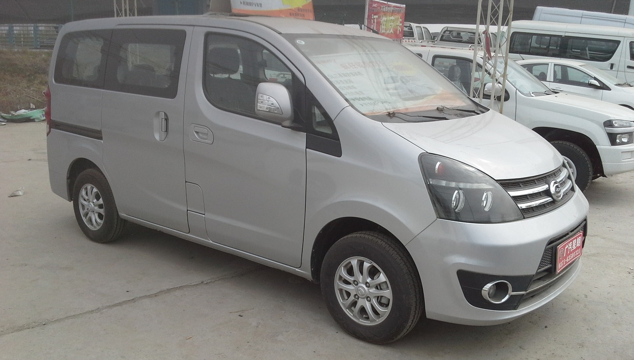 Gonow Xinglang facelift photographed in Zhengzhou, Henan province, China.